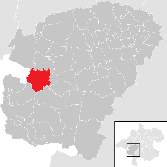 District Vöcklabruck